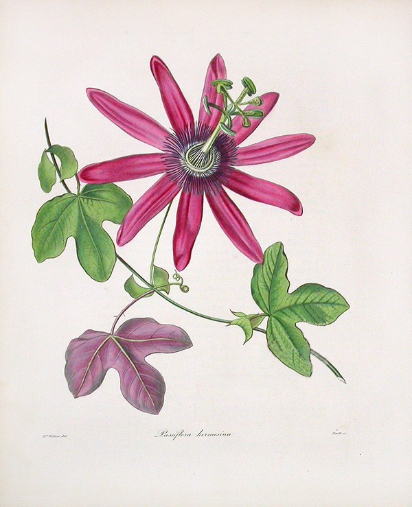 Passiflora kermesina Link & Otto